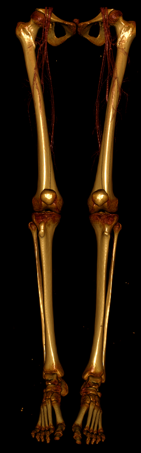 Revealing the bony skeleton of the same body